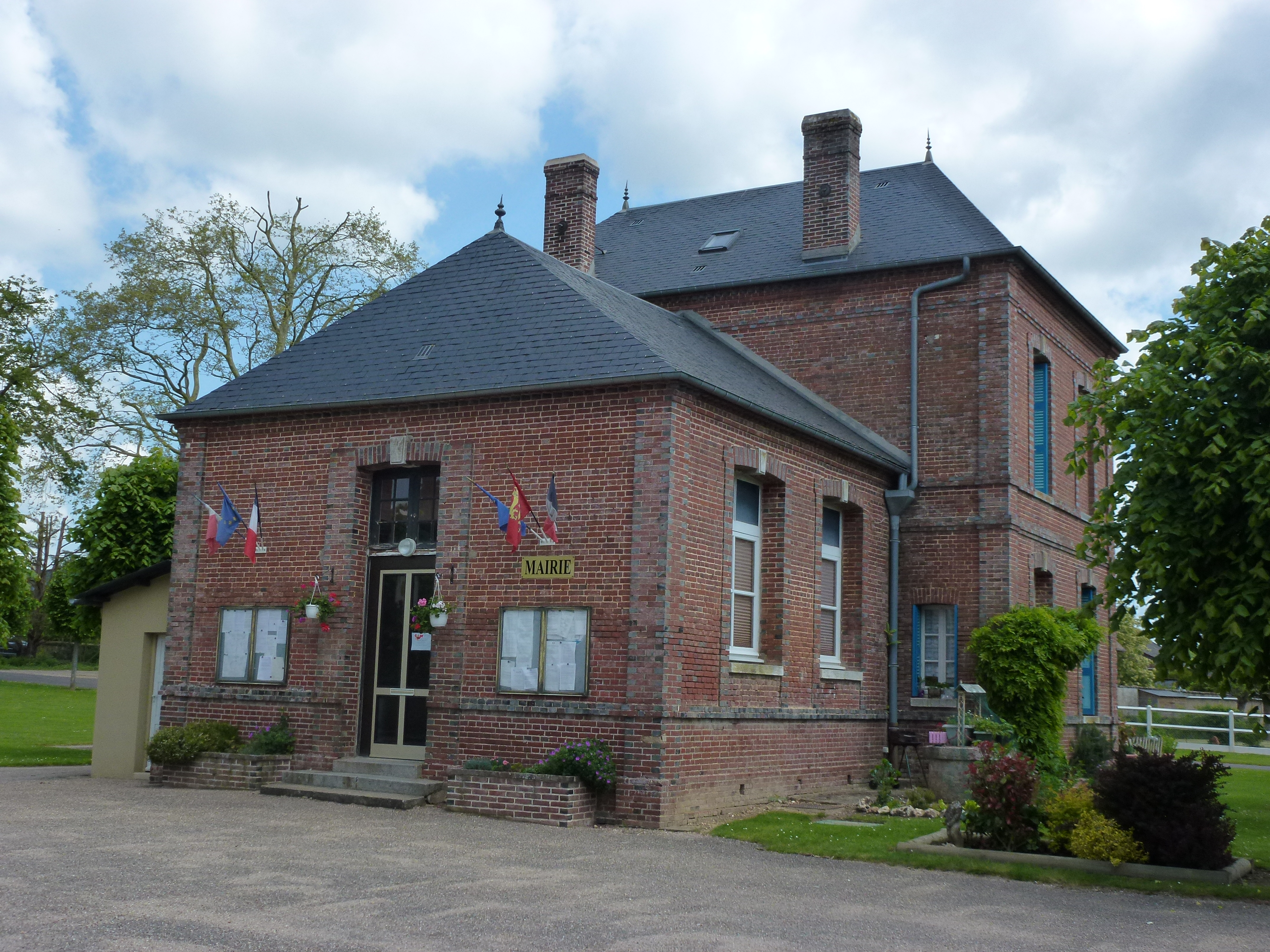 Saint-Nicolas-du-Bosc (Eure, Fr) mairie (02)